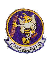 Emblem of the 28th Air Transport Squadron Souce: United States Air Force (USAAF).